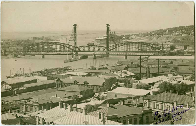 The first railroad bridge over the Don in Rostov-on-Don.